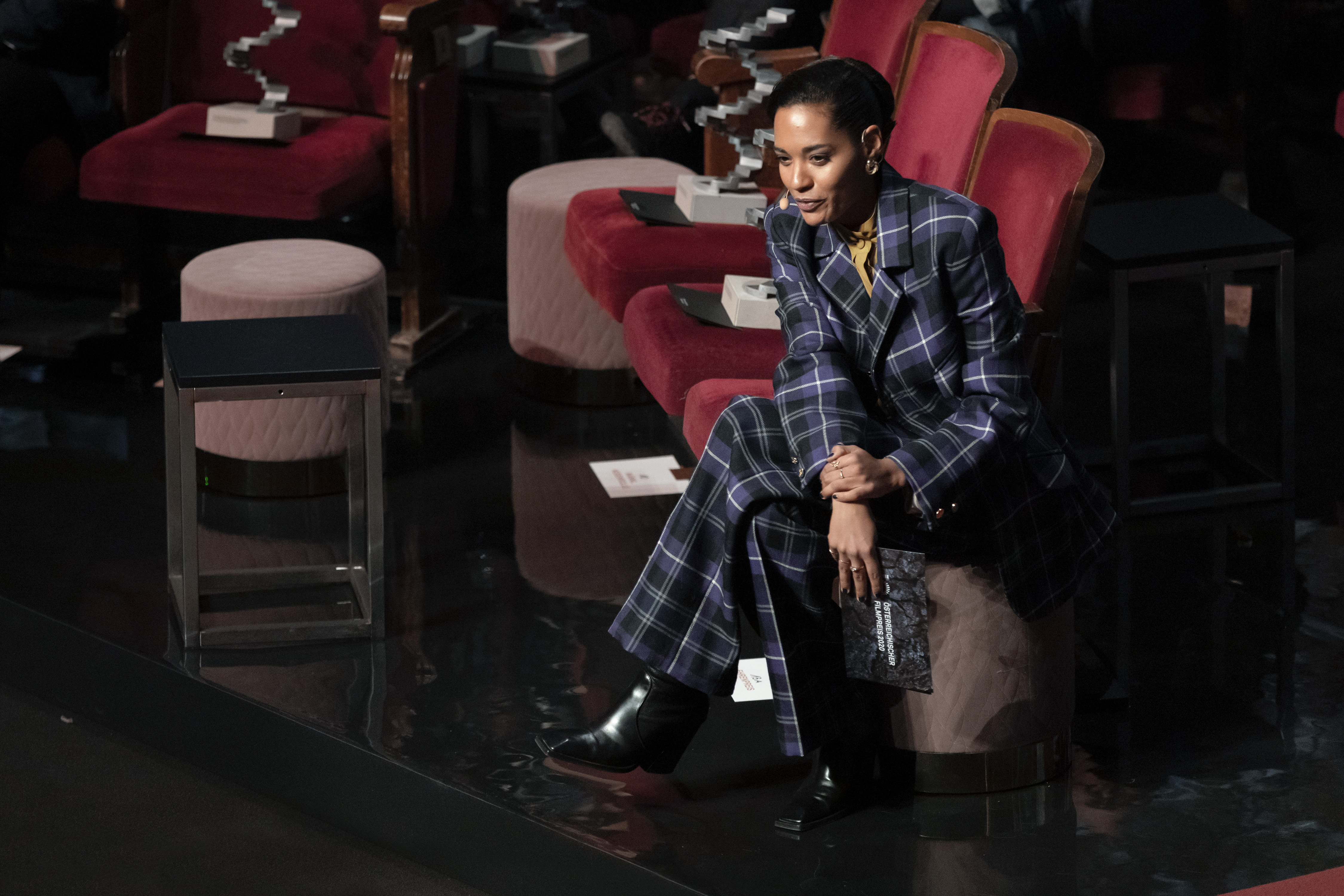 Salka Weber, presenter of the award ceremony of the Austrian Film Awards 2020 (Auditorium Grafenegg at Grafenegg Castle, Lower Austria,Austria).